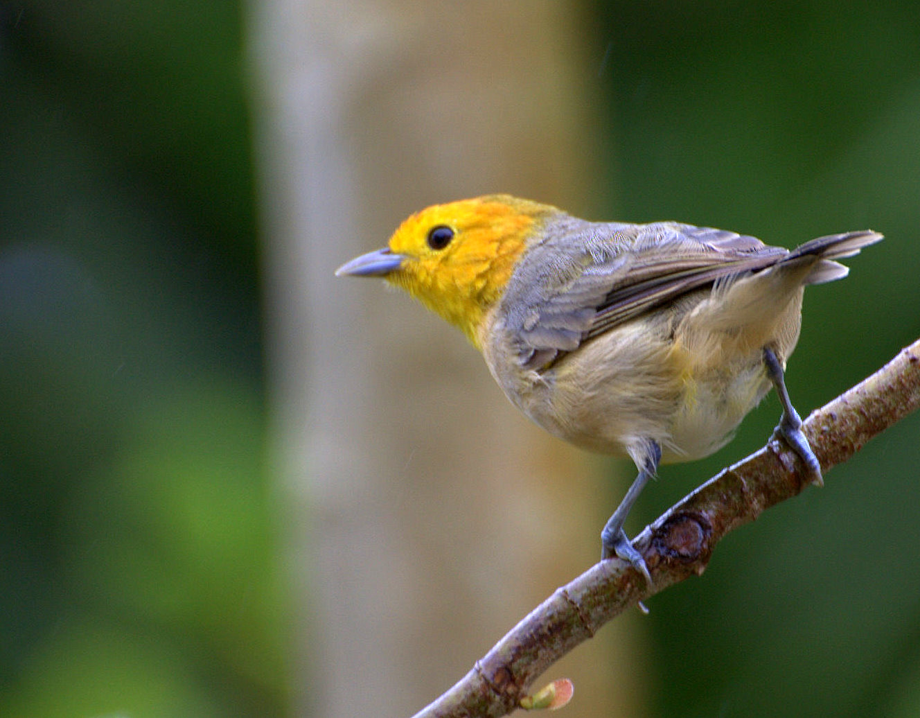 Orange-headed Tanager (Thlypopsis sordida)